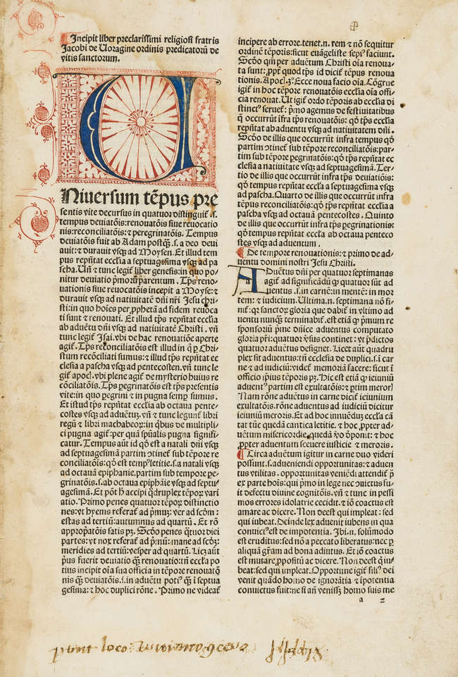 Legenda Aurea picture